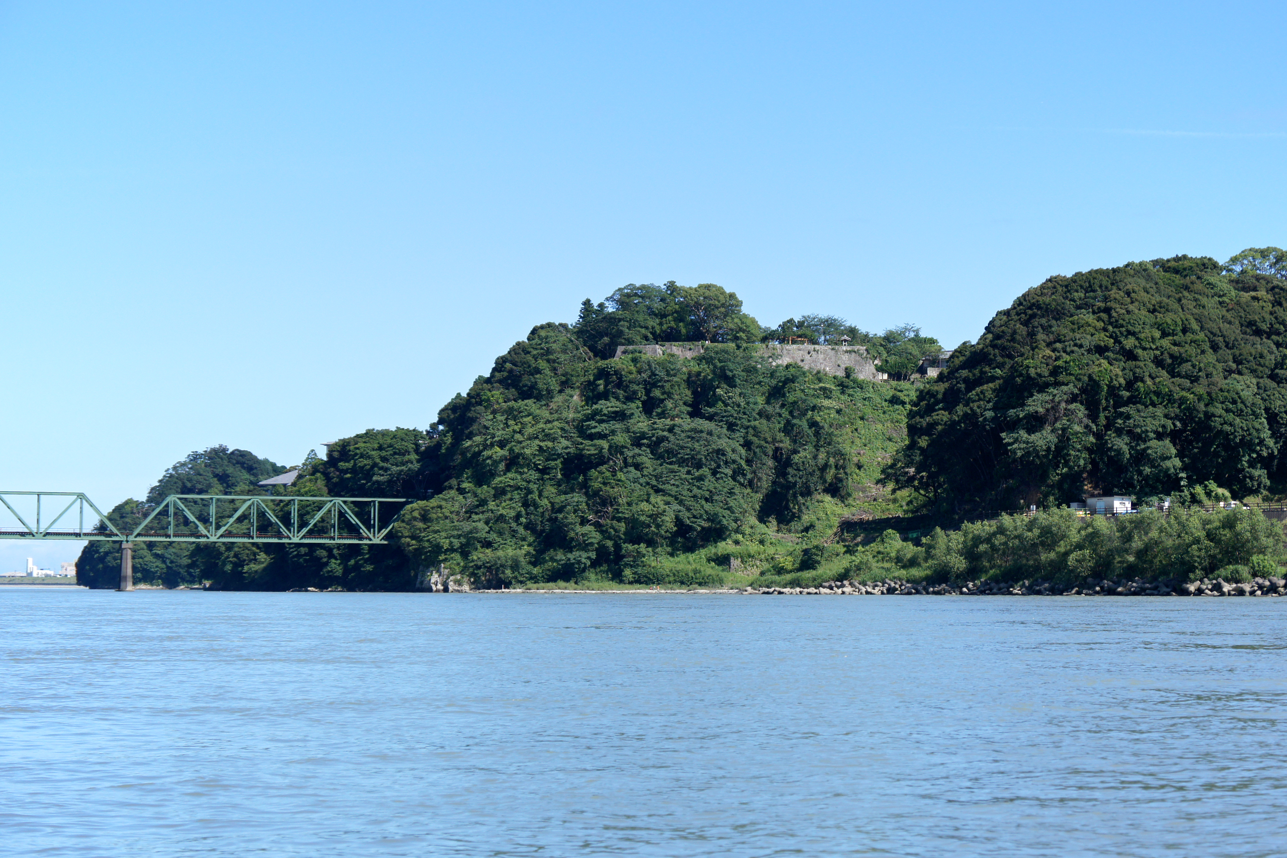 Shingū Castle in Shingū, Wakayama prefecture, Japan